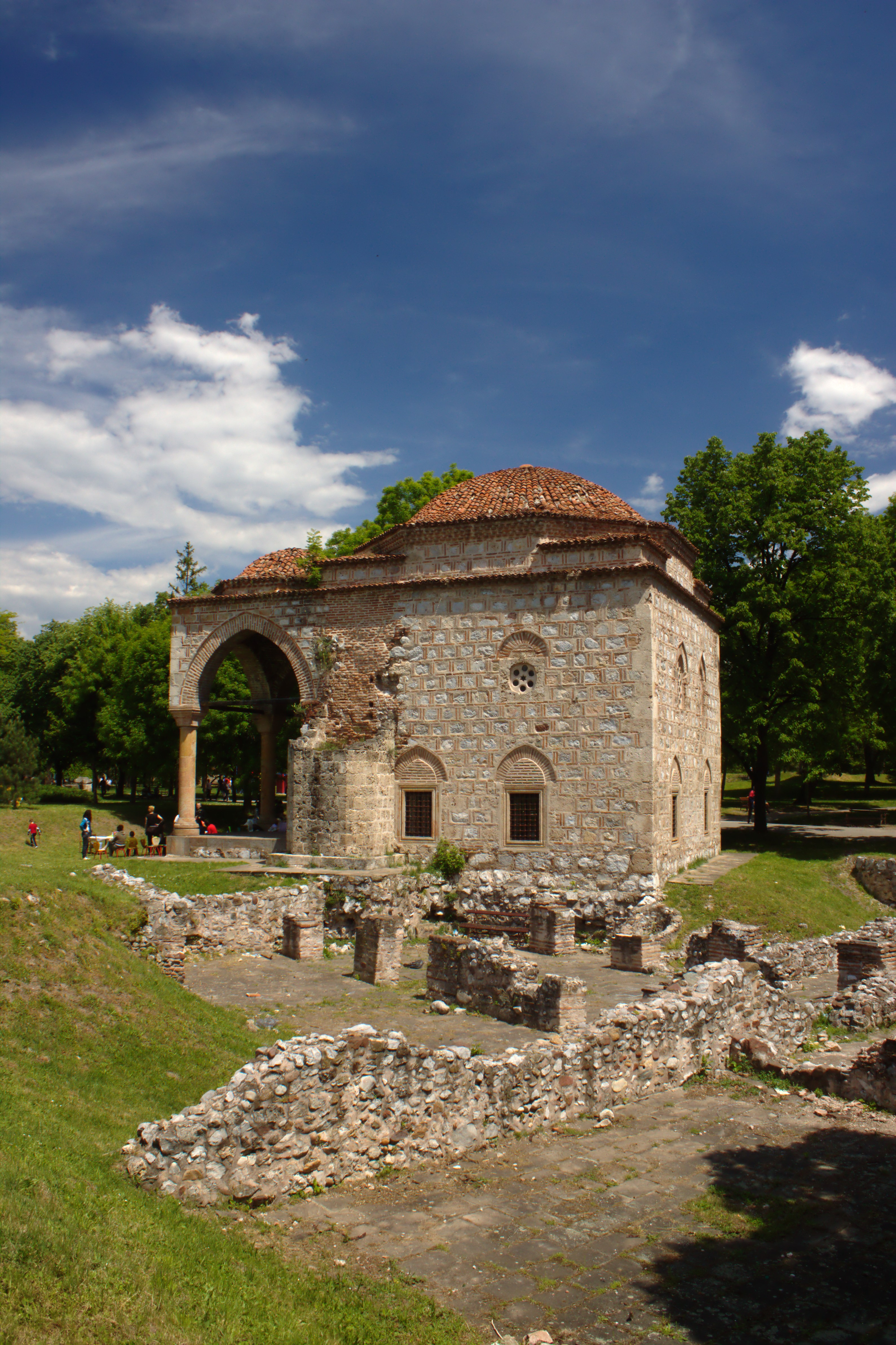 Former Bali-begova mosque in Niš fortress, Serbia